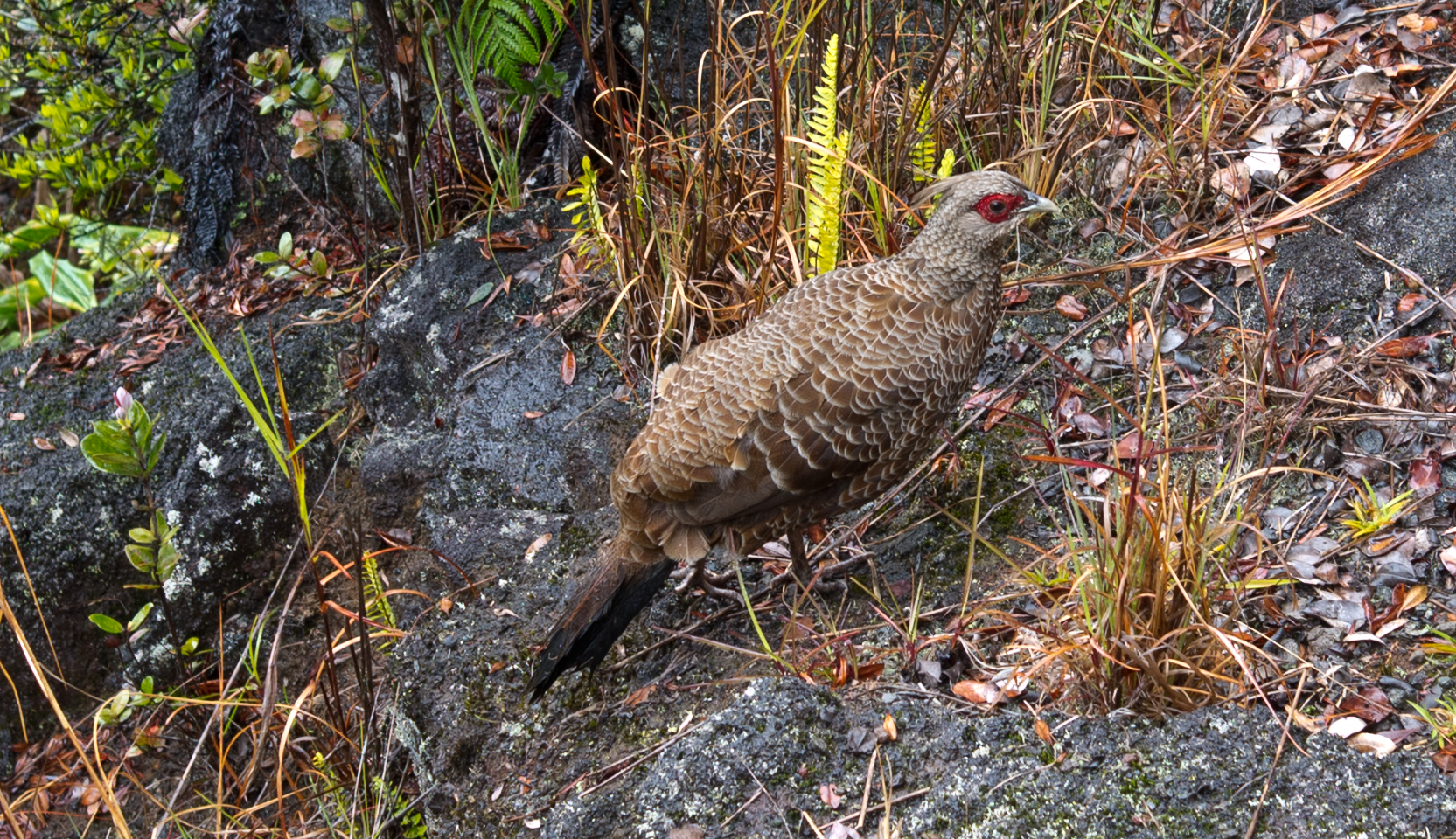 Female Kalij pheasant (Lophura leucomelanos) at the Kilauea crater, Big Island, Hawaii.